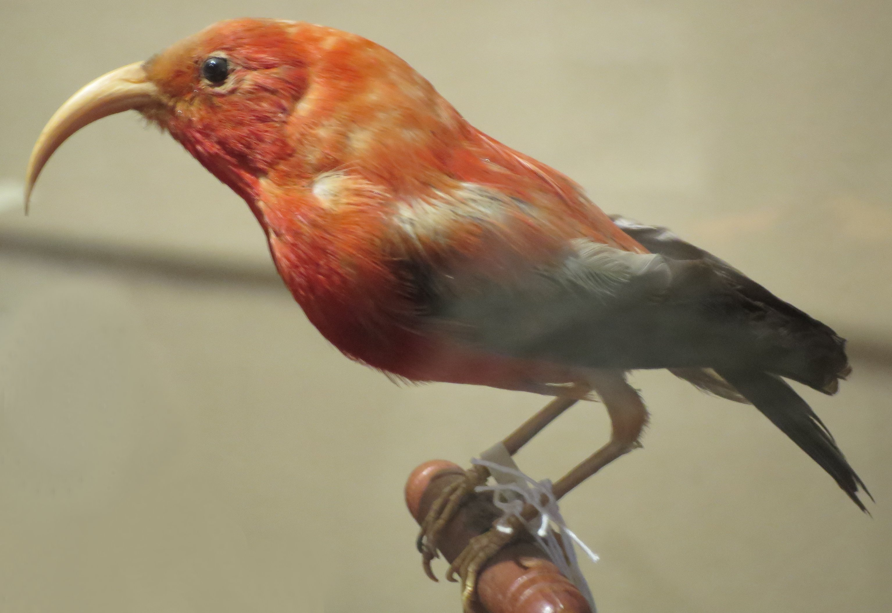 Drepanis coccinea ('I'iwi), Bishop Museum, Honolulu